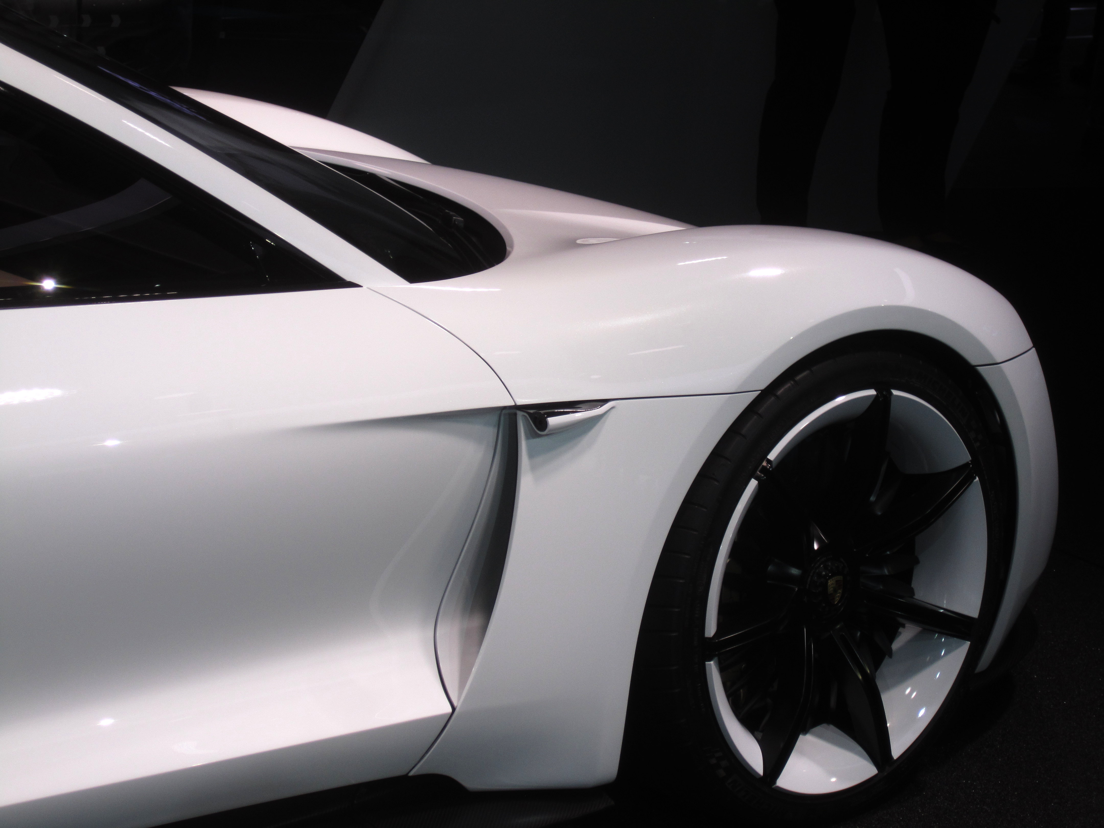 Camera of the electronic rear view mirror of the Porsche Mission E Concept (IAA 2015)